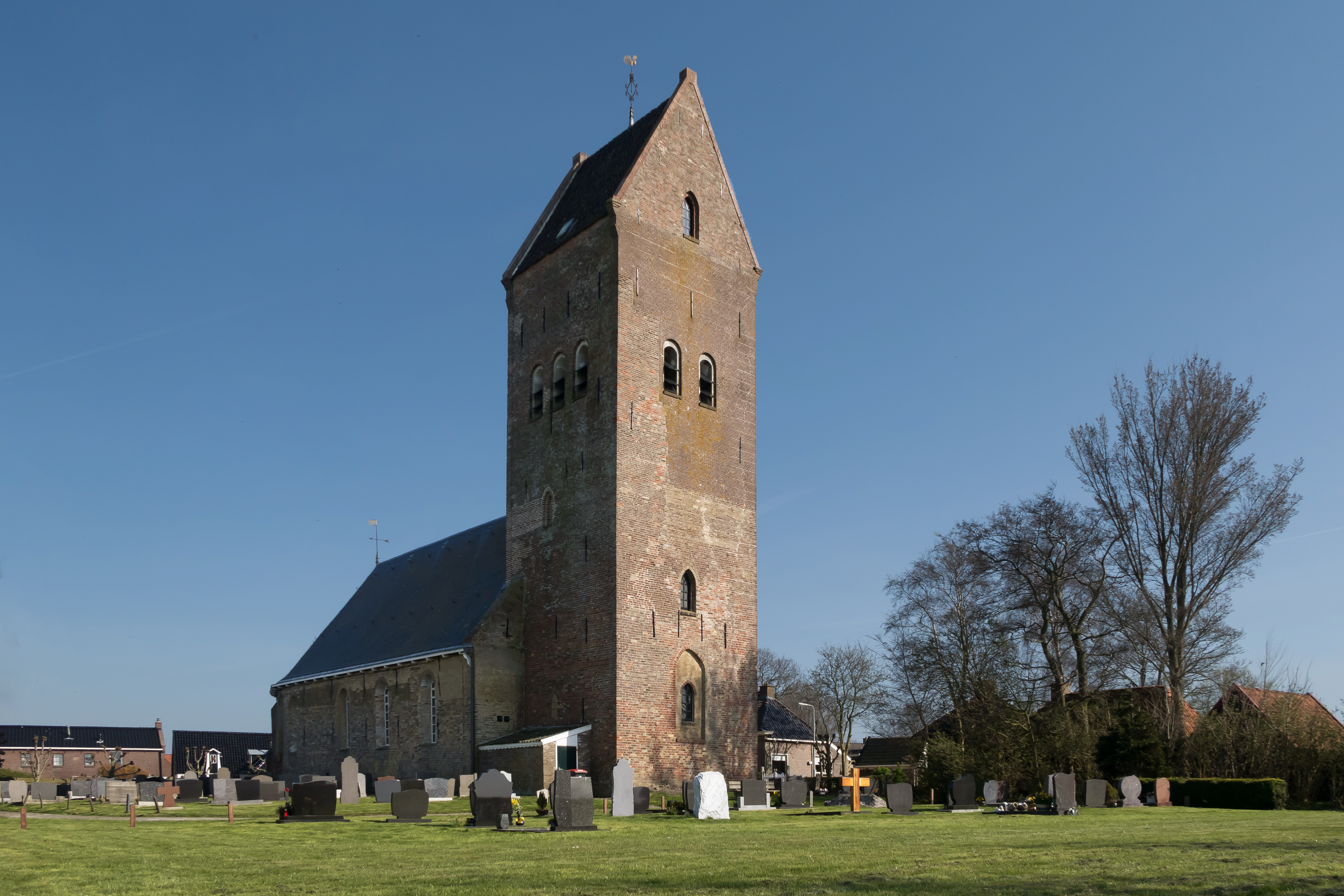 Parrega, church: de Sint Johannes de Doperkerk